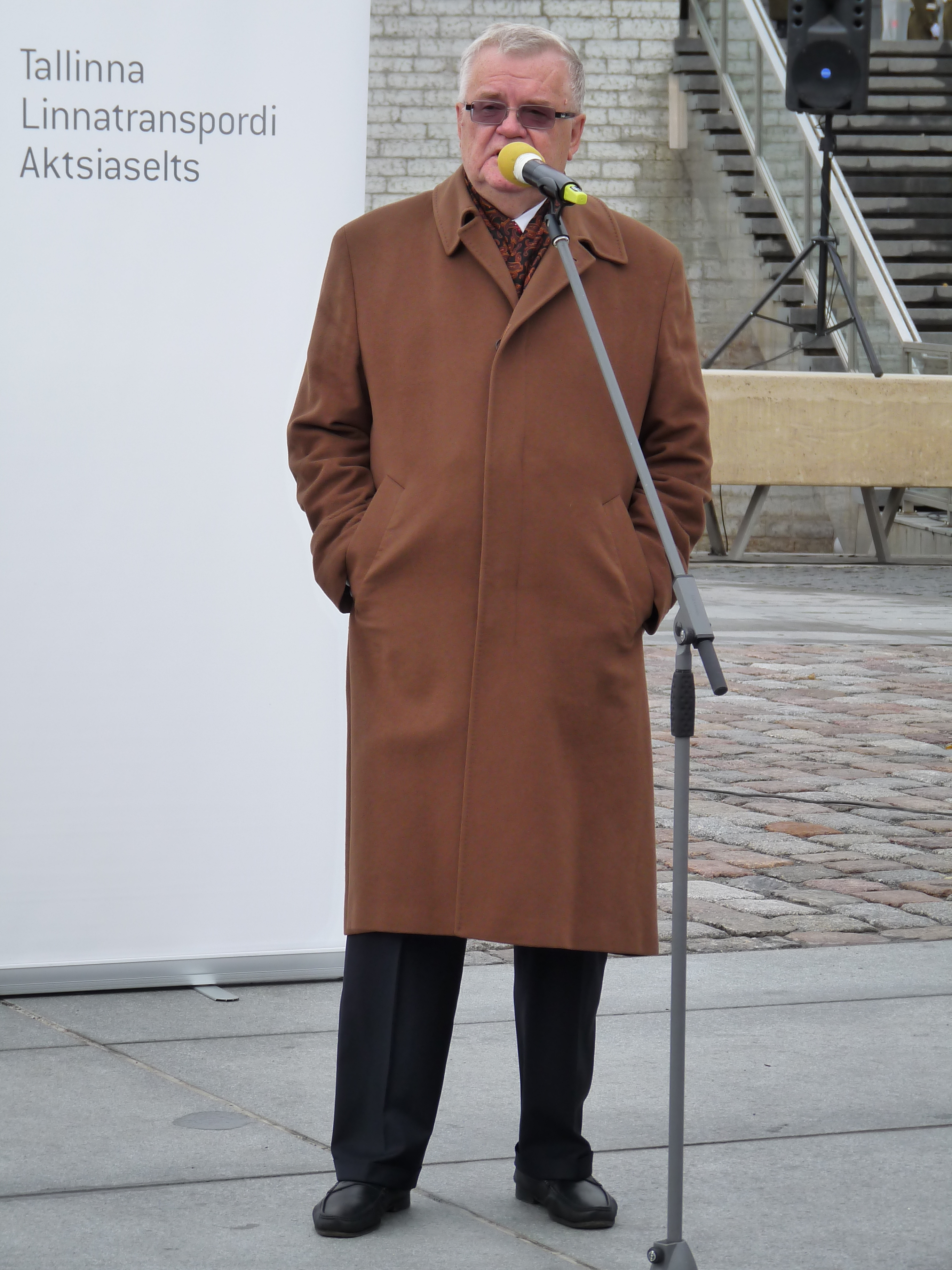 Presentation of MAN buses in Tallinn, Estonia